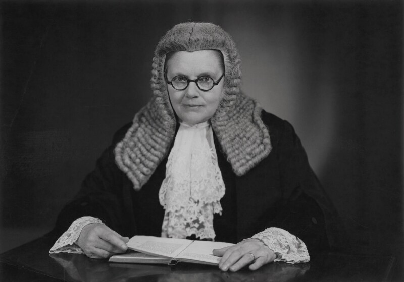 Helena Florence Normanton (1882-1957) was the second woman to be called to the Bar of England and Wales, and the first woman to practise as a barrister in England.